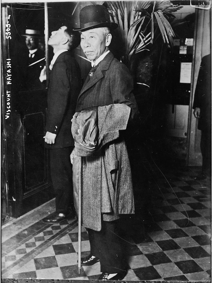 Gonsuke Hayashi